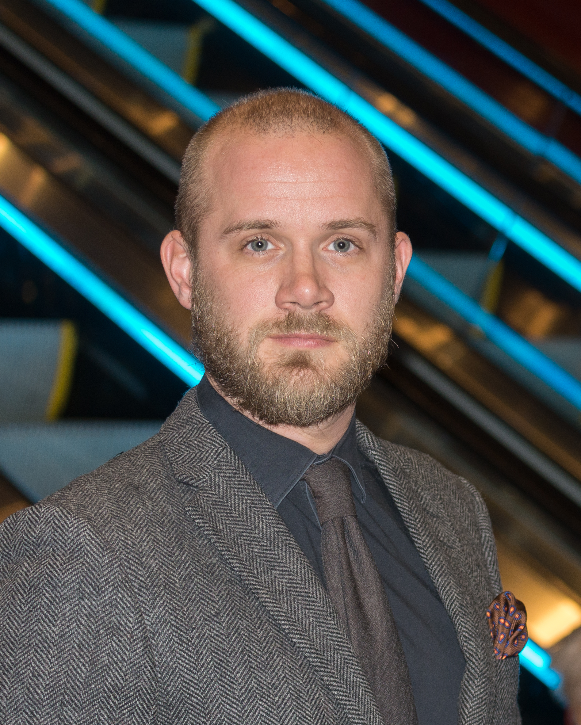 What is art and what is it good for? Conversation at Kulturhuset/Stadsteatern with Stina Oscarson, Lars Anders Johansson and Wilhelm von Kröckert/ Ernst Billgren.